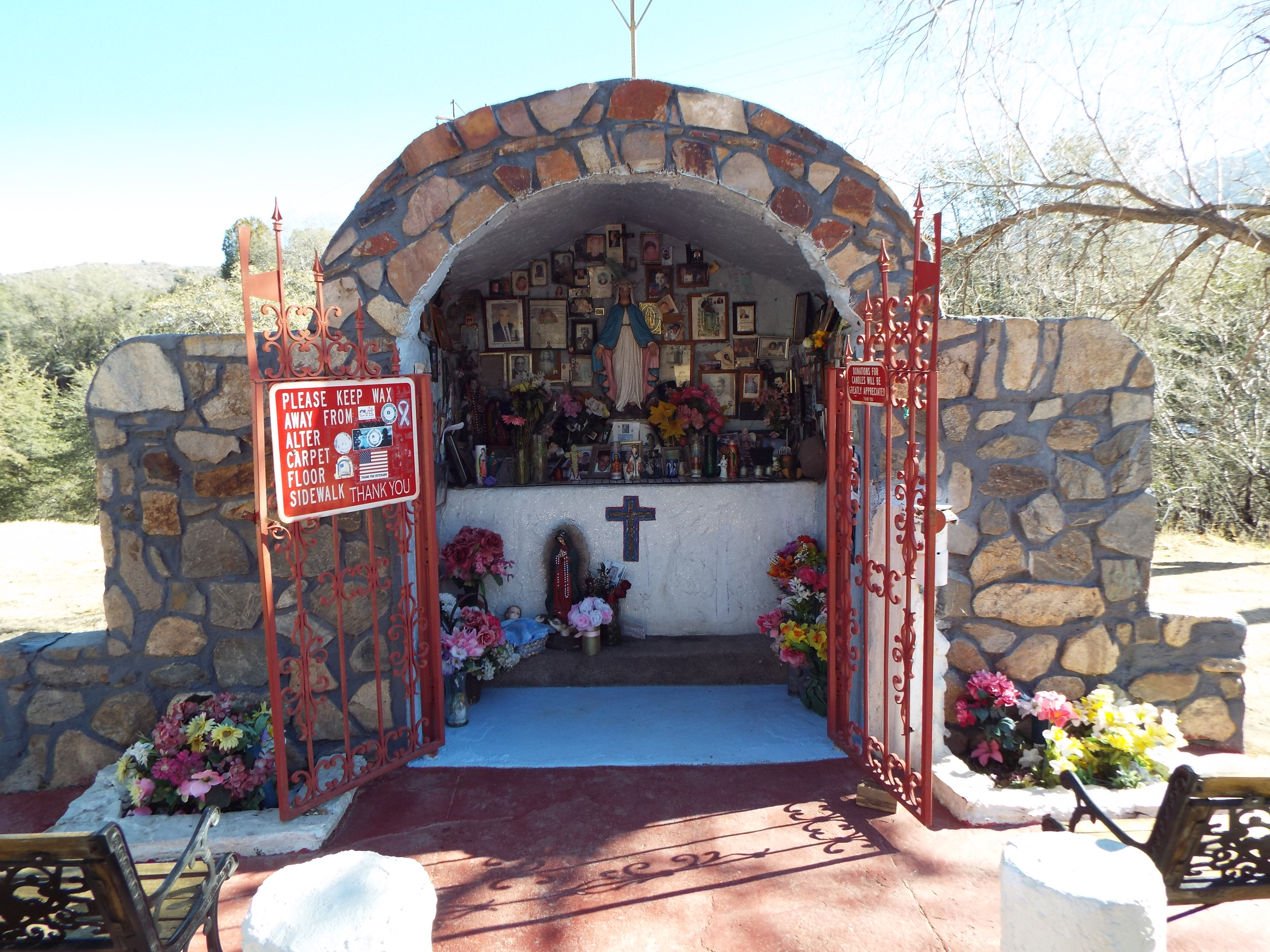 Shrine located on Hwy 60 in Miami, Arizona. It was created in 1952 by a Korean War Veteran.